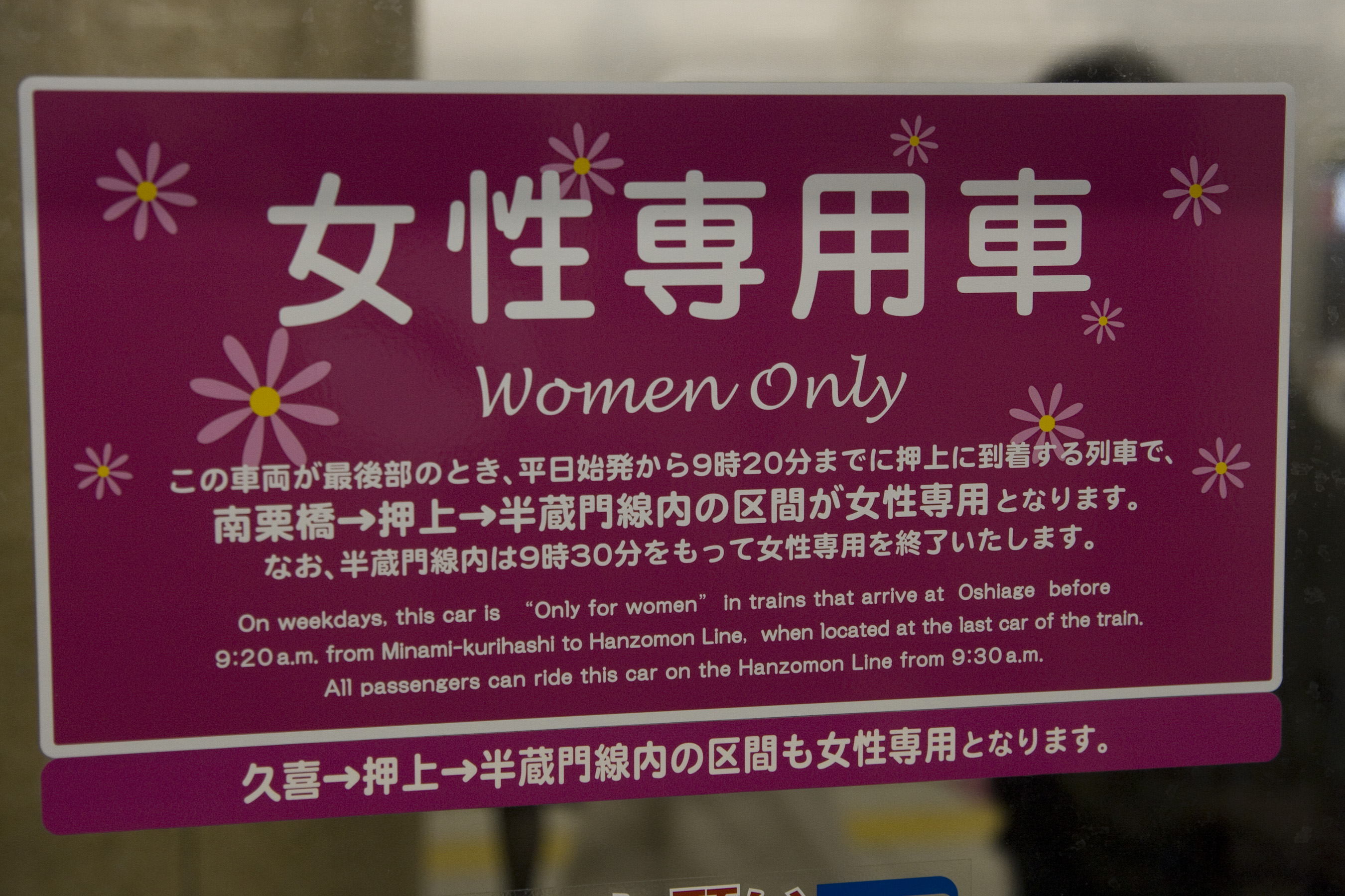 This carriage is for "Woman Only" sign at Tokyo Metro